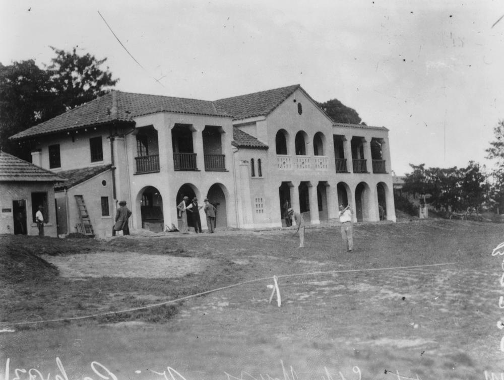 Teeing off in front of the clubhouse at Victoria Park Golf Club, Herston, 1931.